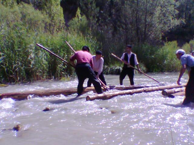 "Gancheros" lowering the trunks by the Tagus river.